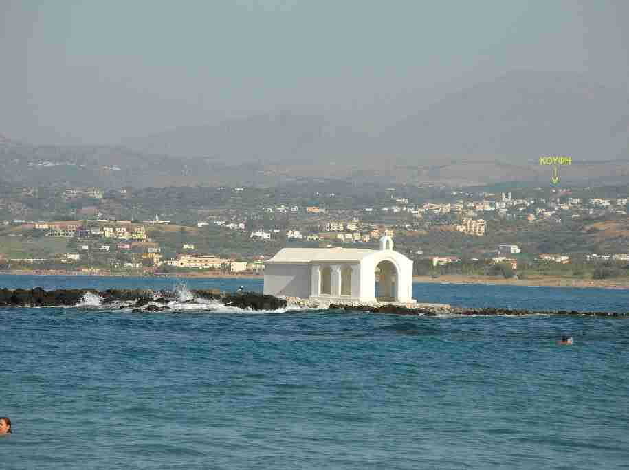 Koufi village in Rethymno prefecture, Crete